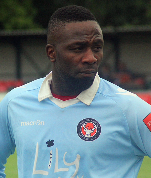 Moses Ashikodi in action for Walton Casuals in 2015.